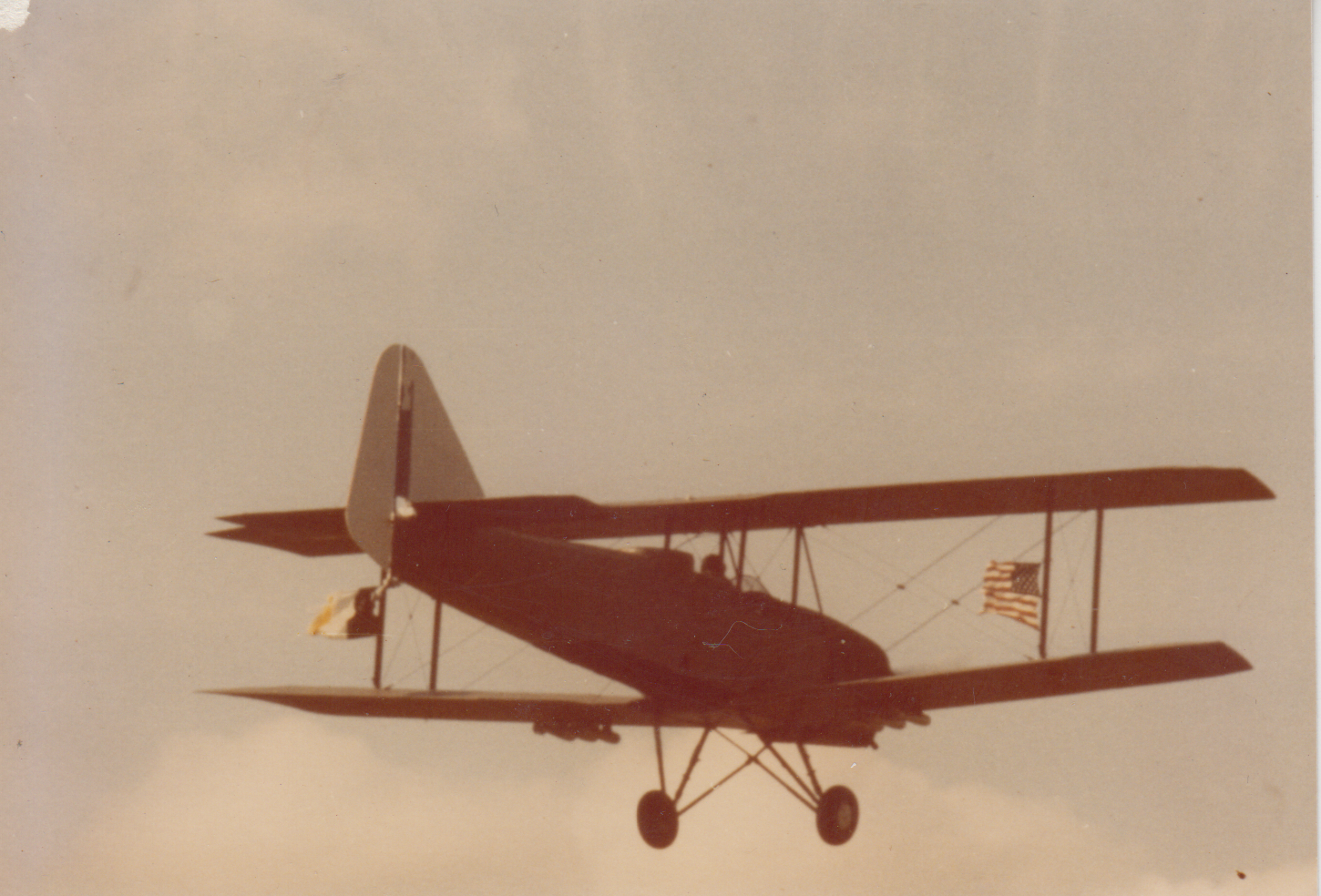 Lynn Garrison's Caudron Luciole flew with American and Irish flags July 4, 1970